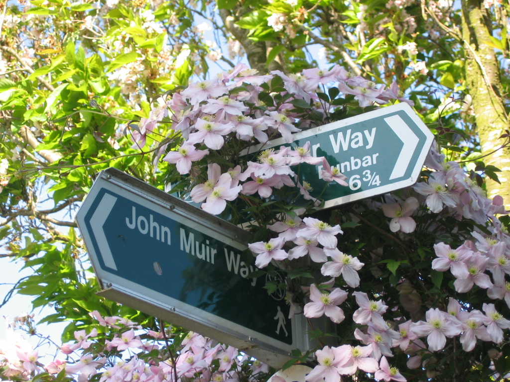 John Muir Way signpost, East Lothian, Scotland